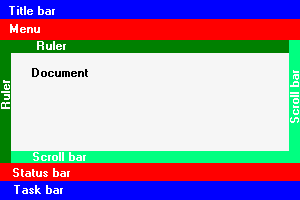 Illustrate some English-language terminology for parts of a typical GUI